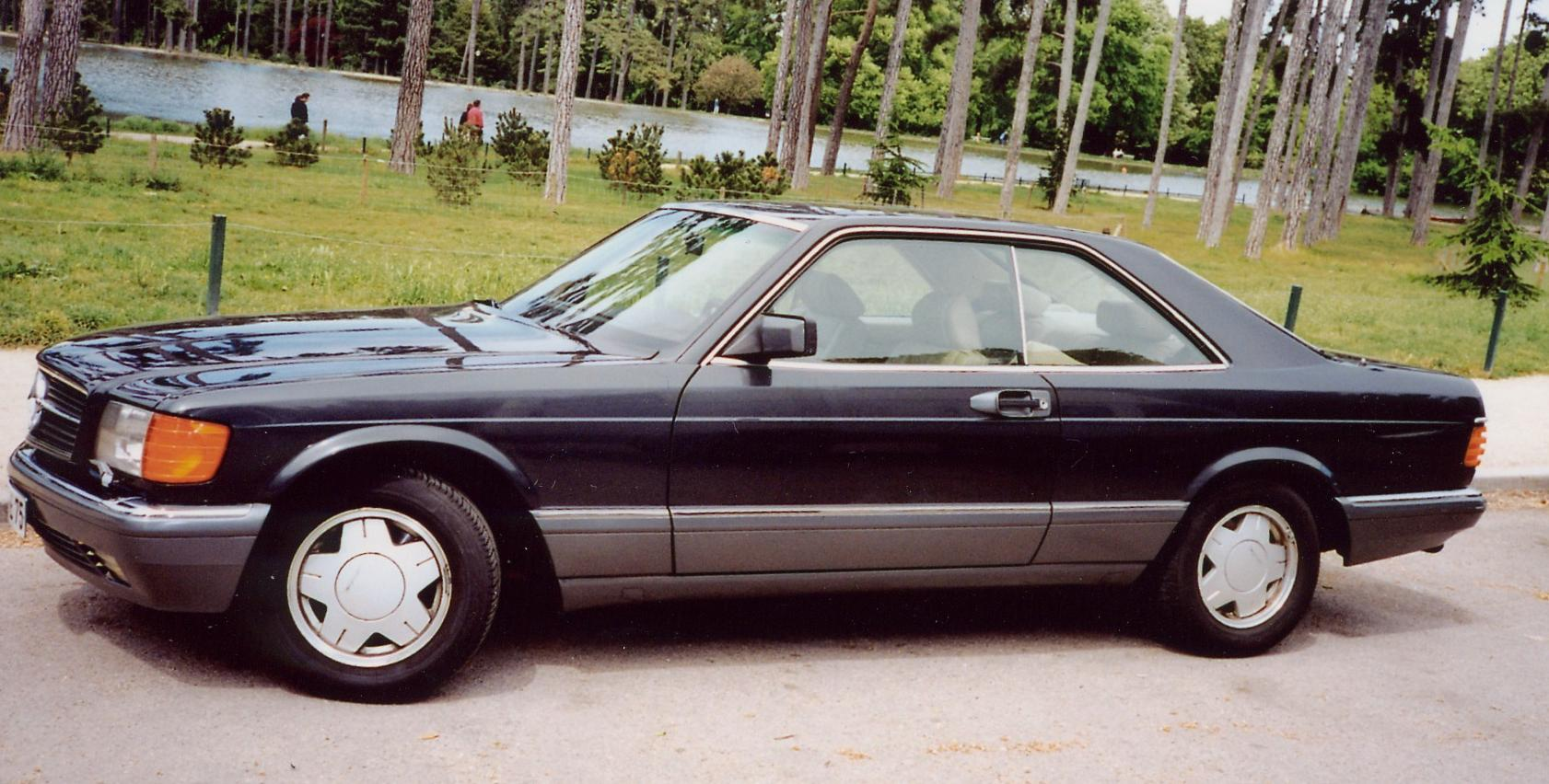 1986–1991 Mercedes-Benz 560 SEC (C126) coupe, photographed in Europe.